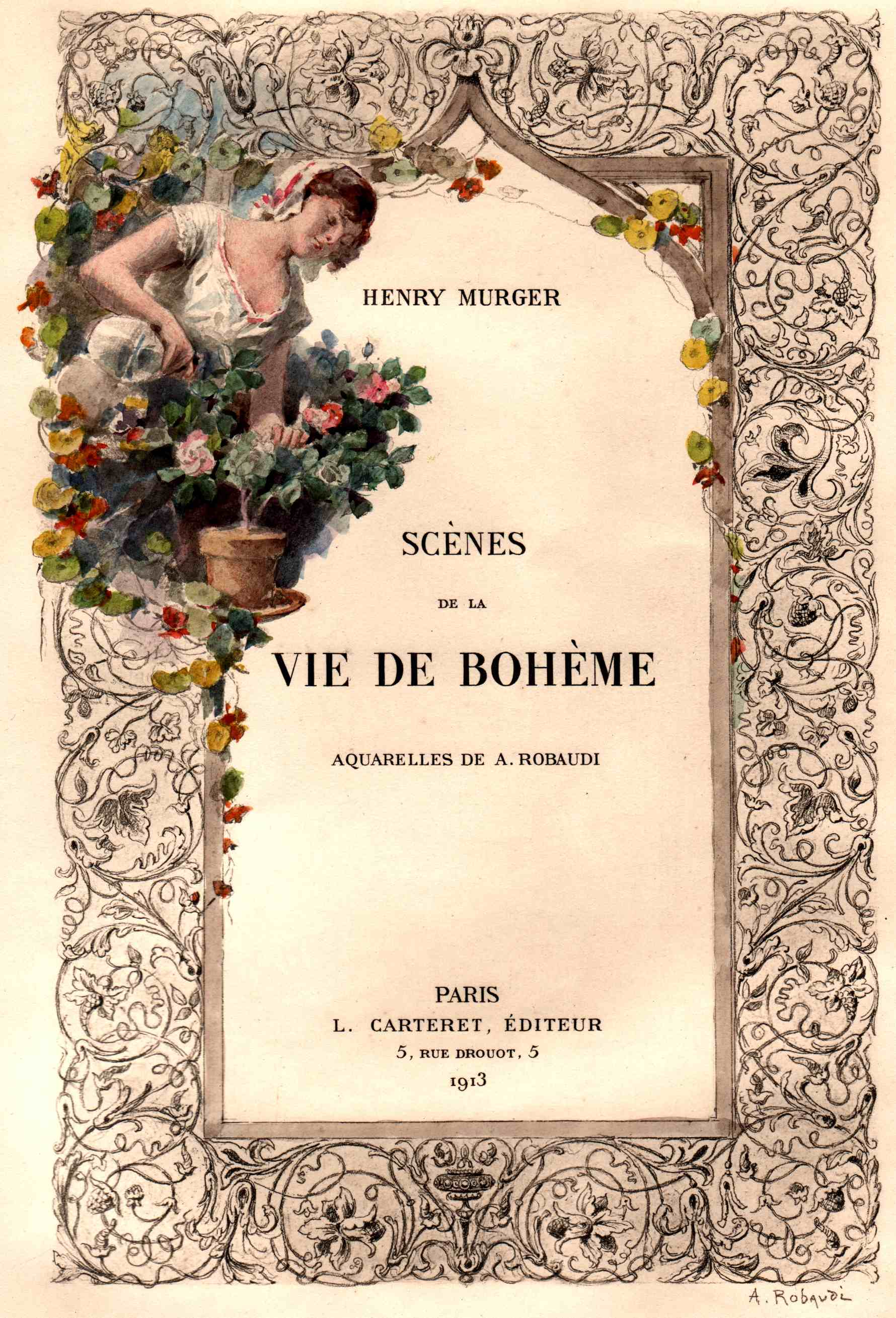 Illustration of Henry Murger's Scènes de la vie de bohème: Paris L. Cartheret éditeur.